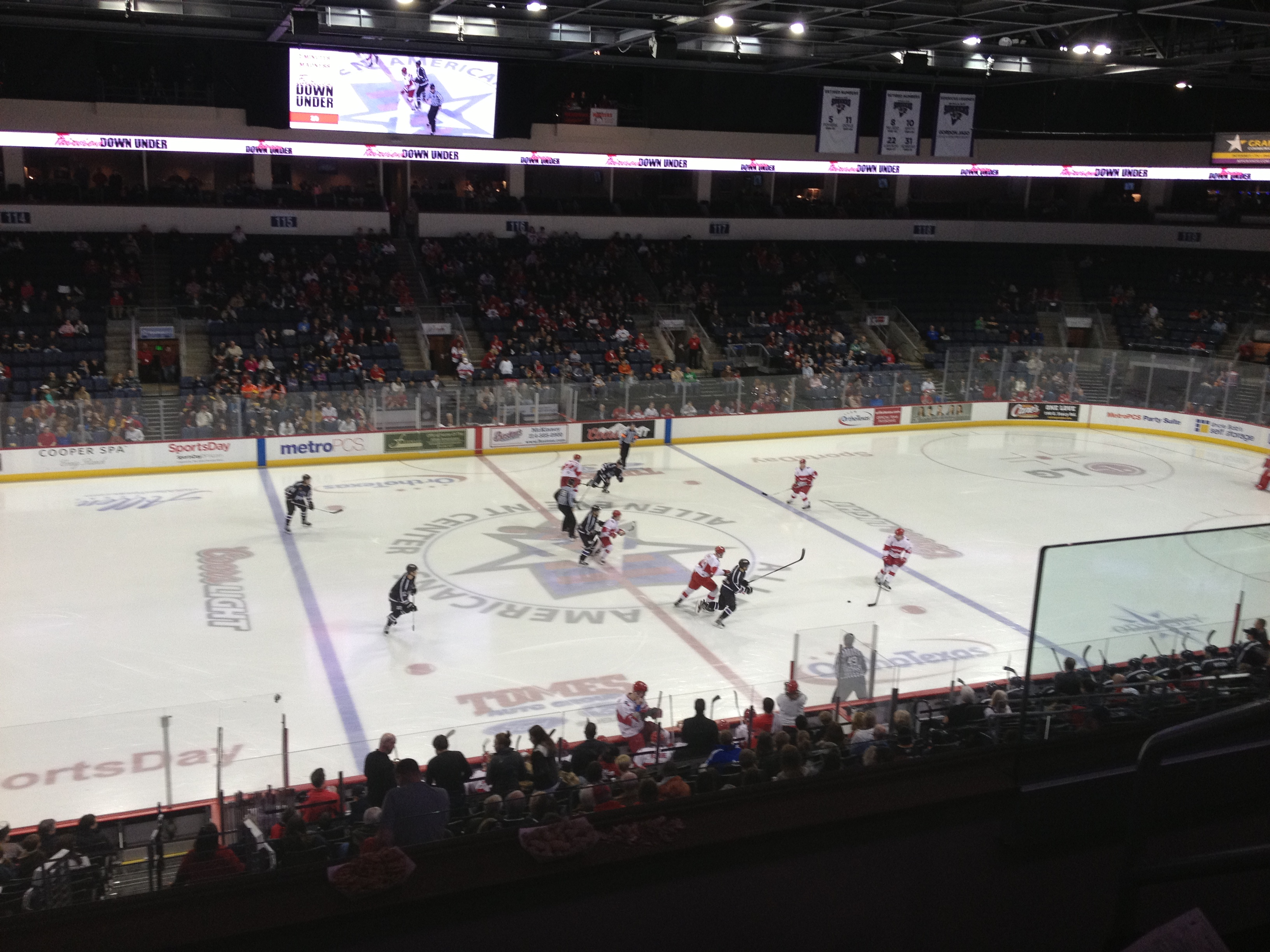 The Fort Worth Brahmas versus the Allen Americans at the Allen Event Center in Allen, Texas. Both teams play professional ice hockey in the Central Hockey League.